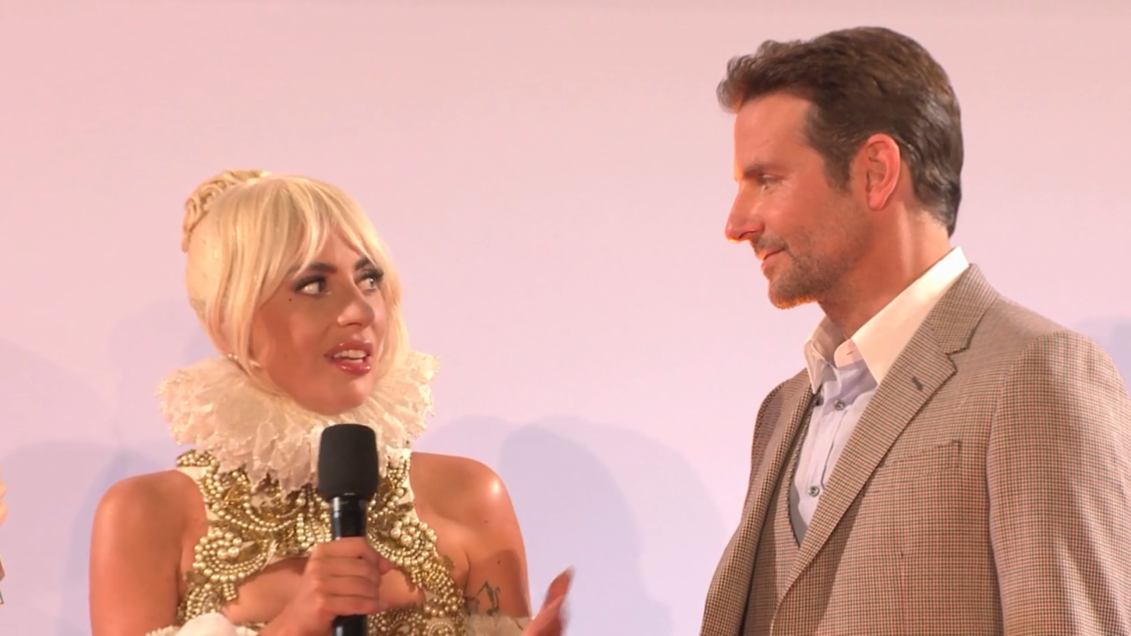 Lady Gaga and Bradley Cooper at A Star is Born premiere in London